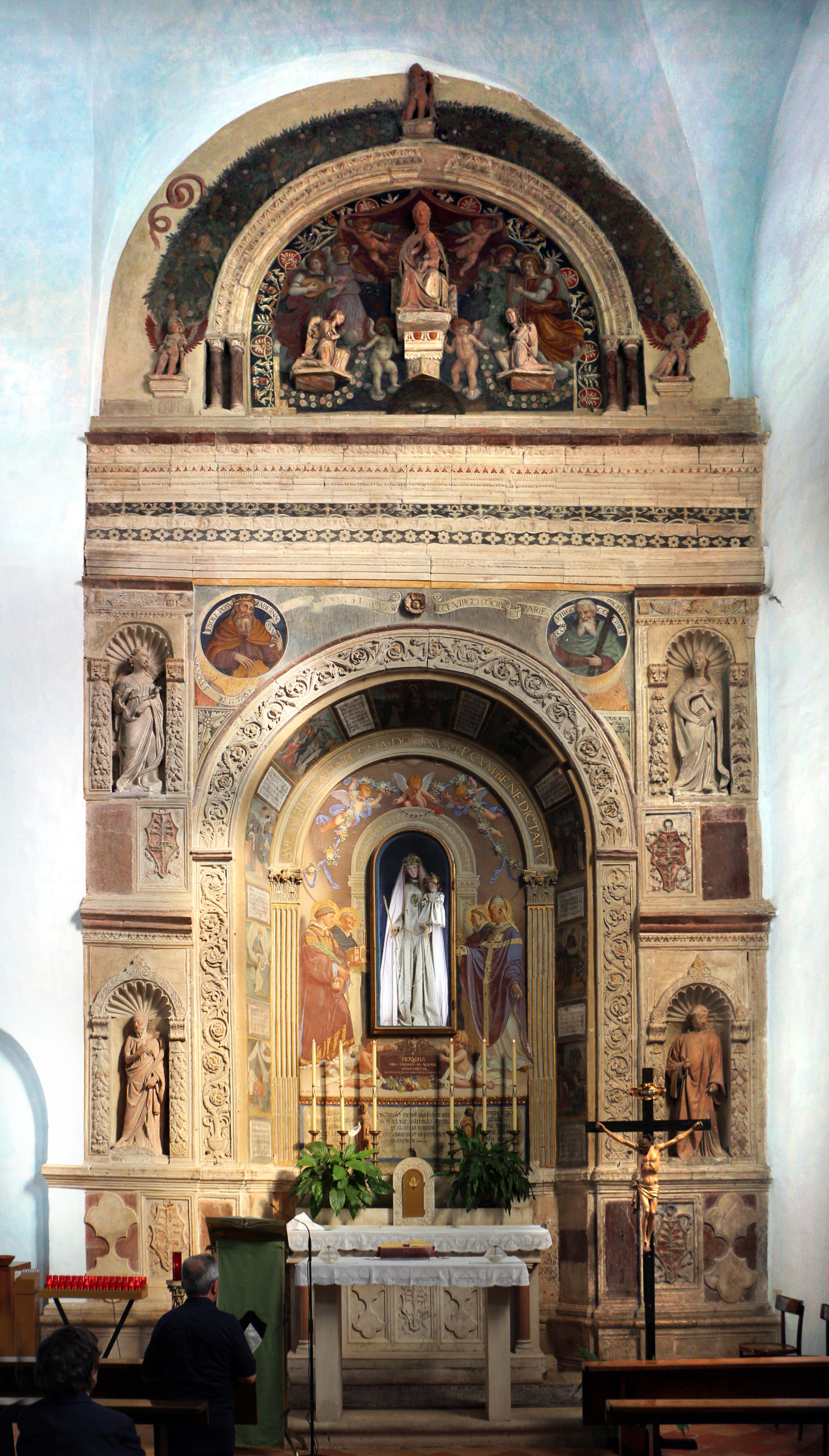 San Domenico (Perugia)